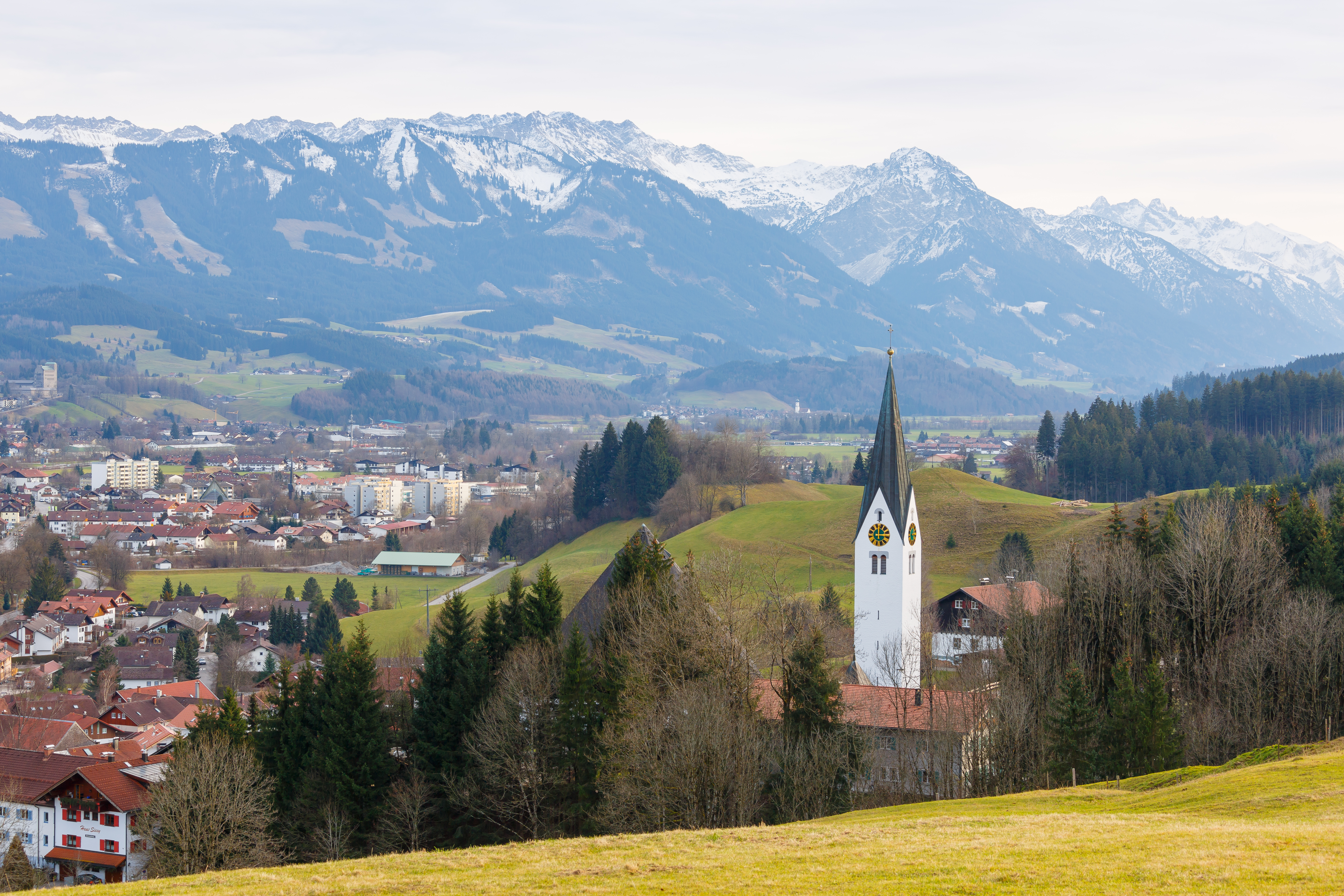 Blaichach, Germany: Urban district Seifriedsberg with the church "St. Georg und Mauritius"